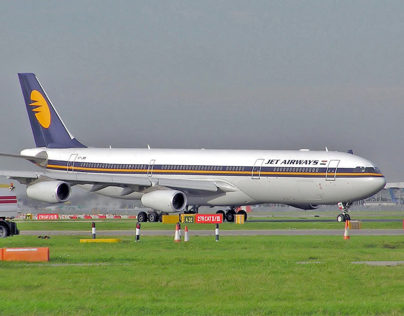 Jet Airways Airbus A340-300 (VT-JWB) waiting for take off, with engines running, at London Heathrow Airport. Photographed by Adrian Pingstone in November 2005 and released to the public domain.